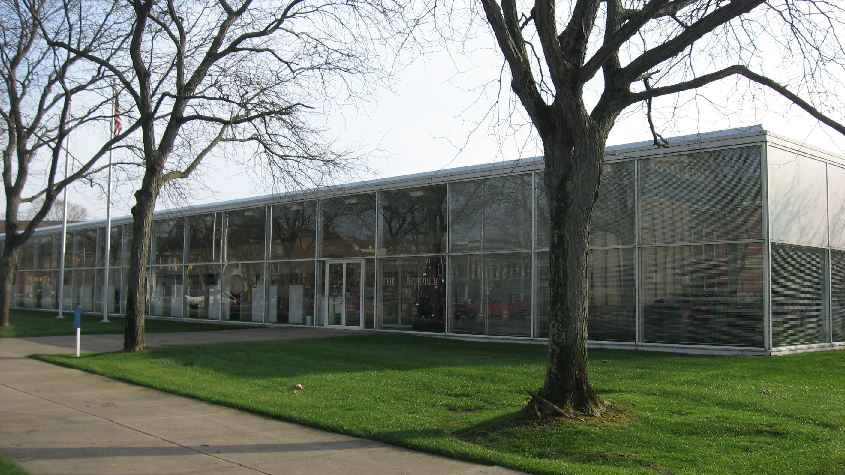 Front of the offices of The Republic, located at 333 Second Street (State Road 46) in Columbus, Indiana, United States. Built in 1971, it has been designated a National Historic Landmark.